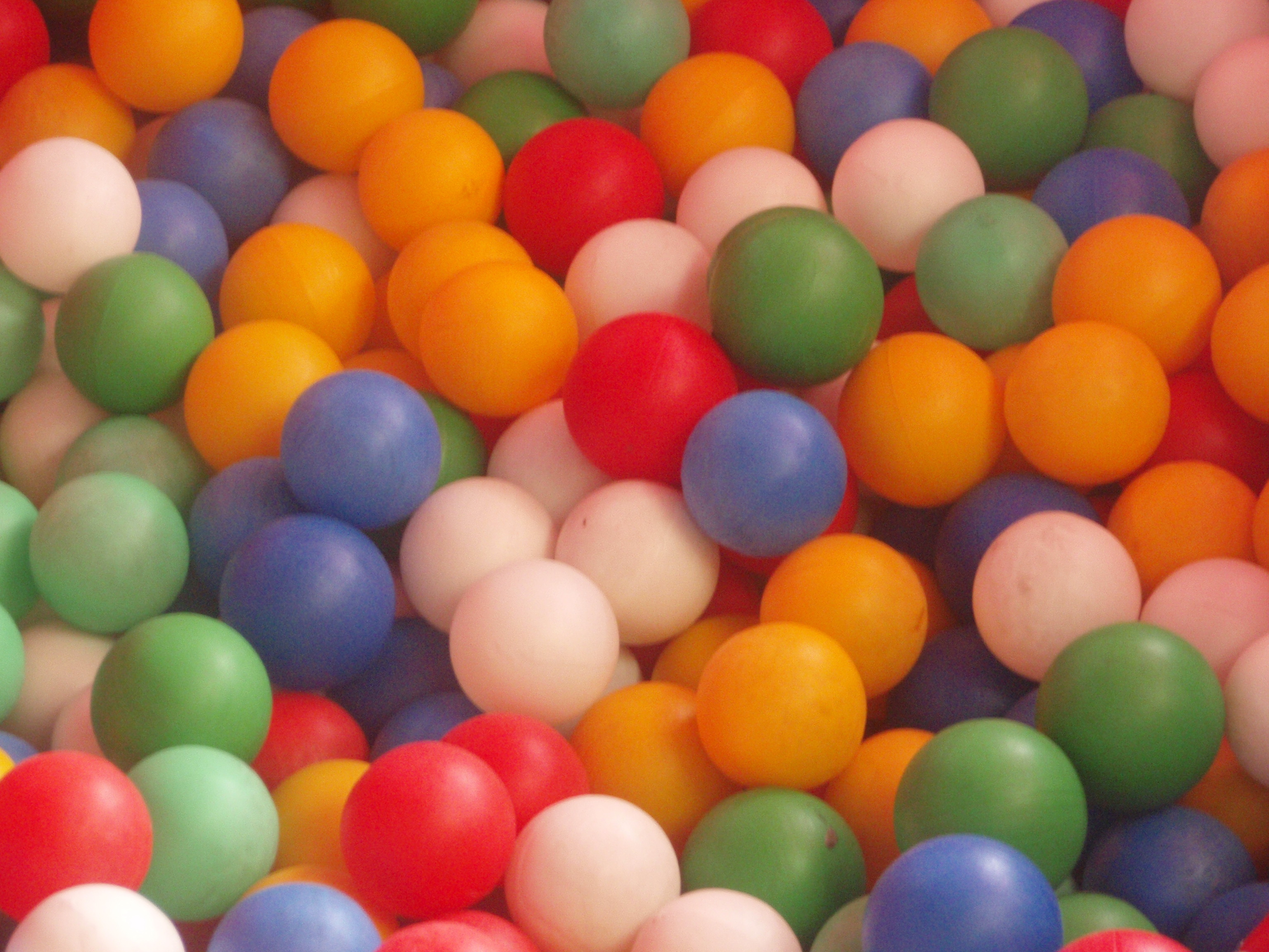 Color Balls